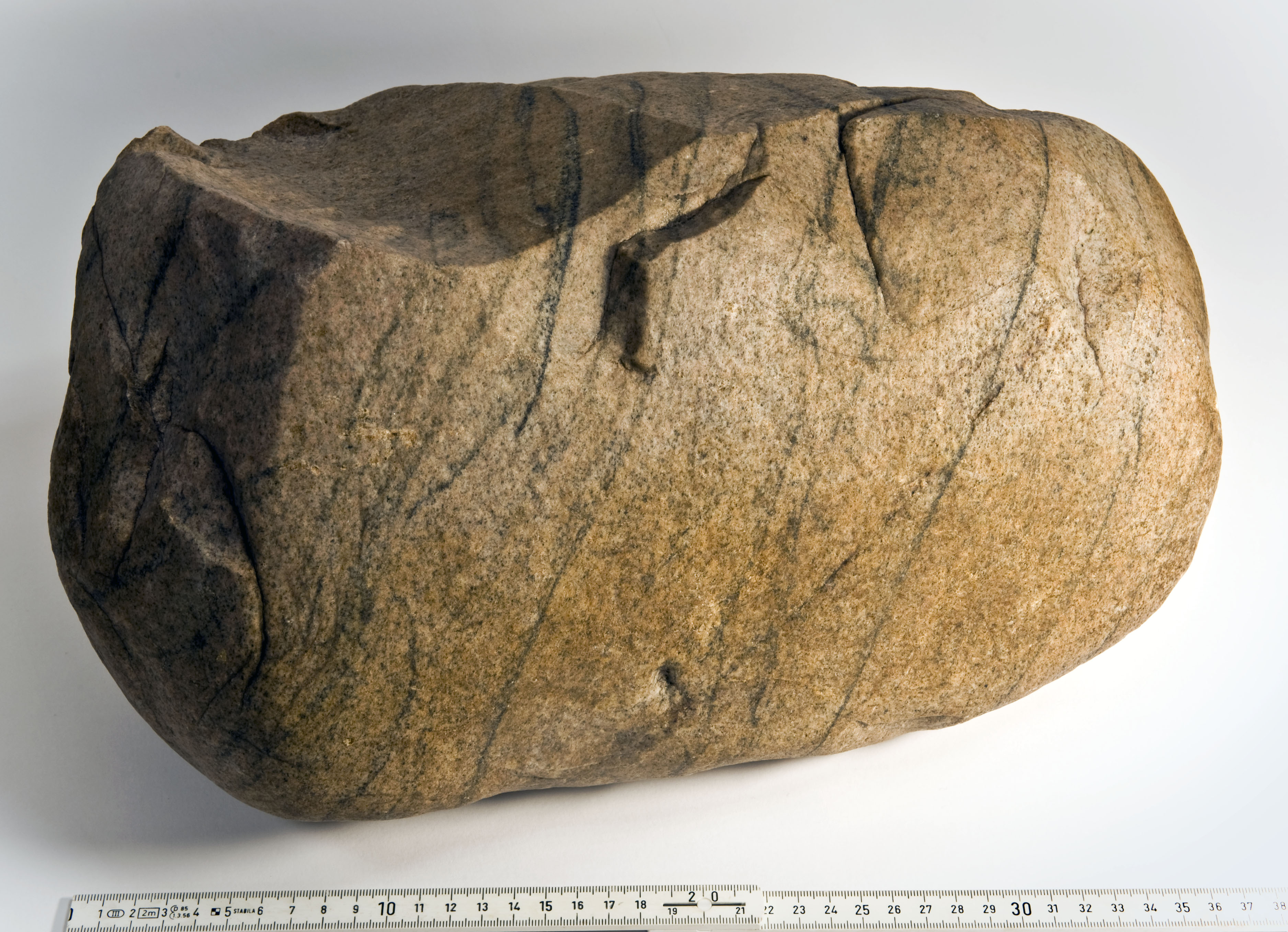 Ventifact from the ice age found in Ehlershausen